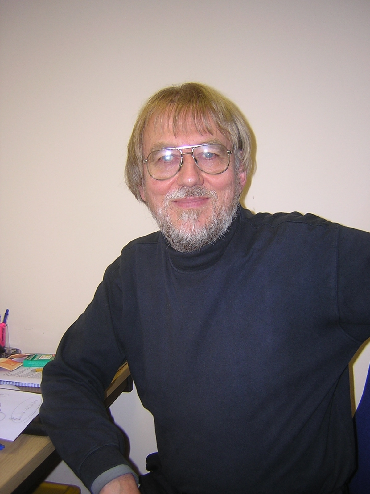 Image of Jakob von Uexküll, founder of the Right Livelihood Award and the World Future Council.